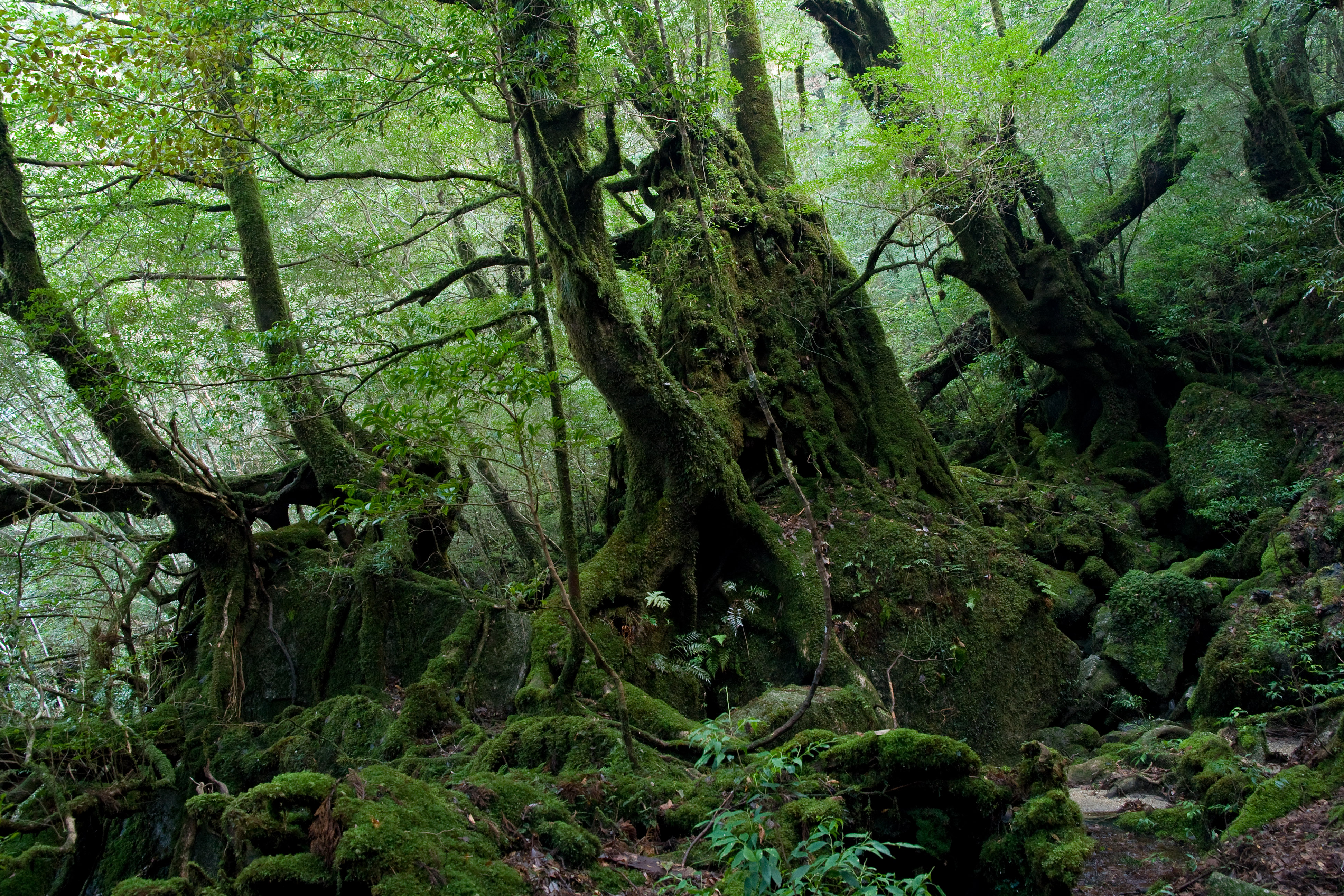 Forest in Shiratani Unsui Gorge, Yakushima, Kagoshima Pref., Japan.